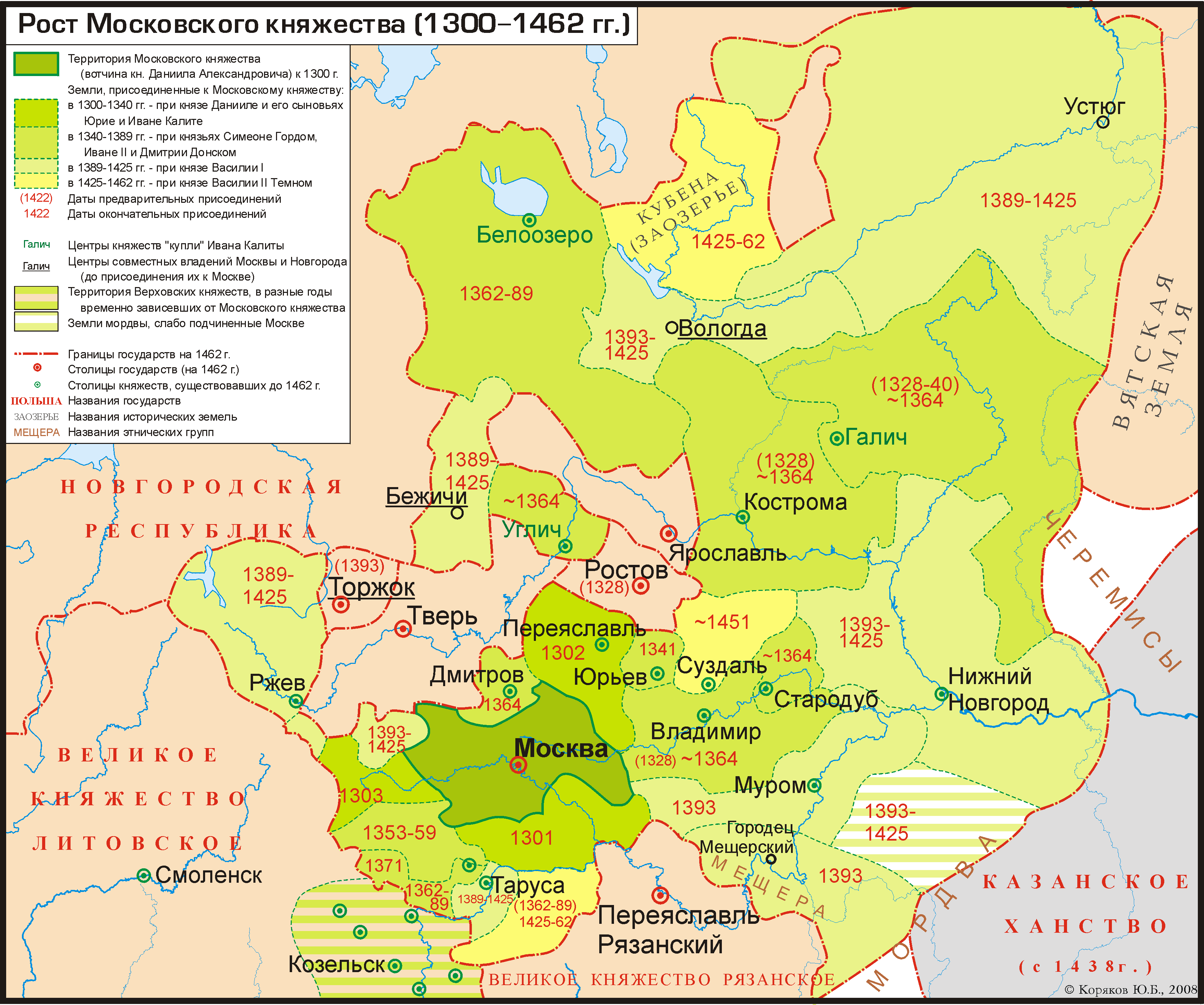 Growth of Grand Duchy of Moscow in 1300-1462 in Russian